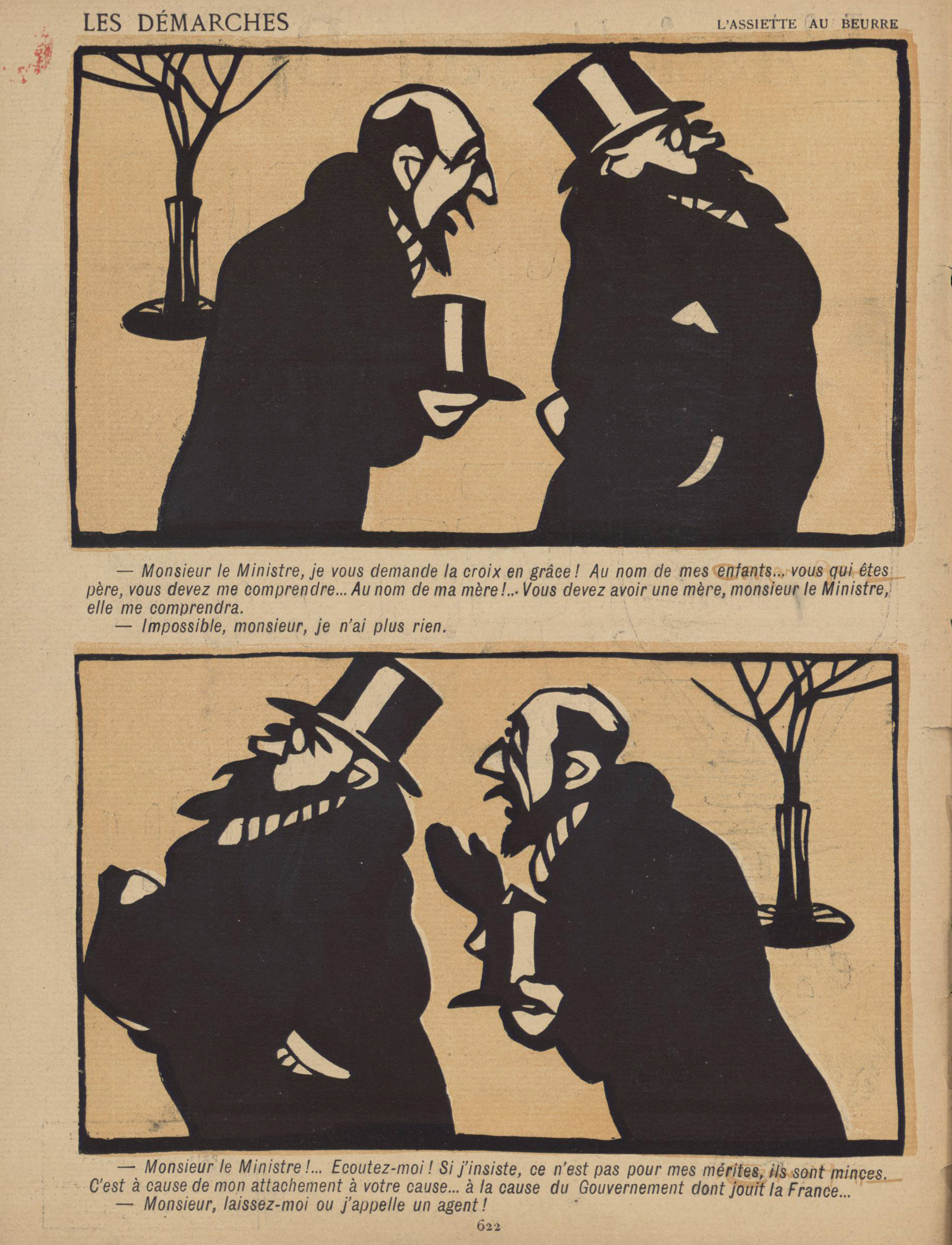 p.622 of "L'assiette au beurre" on medals